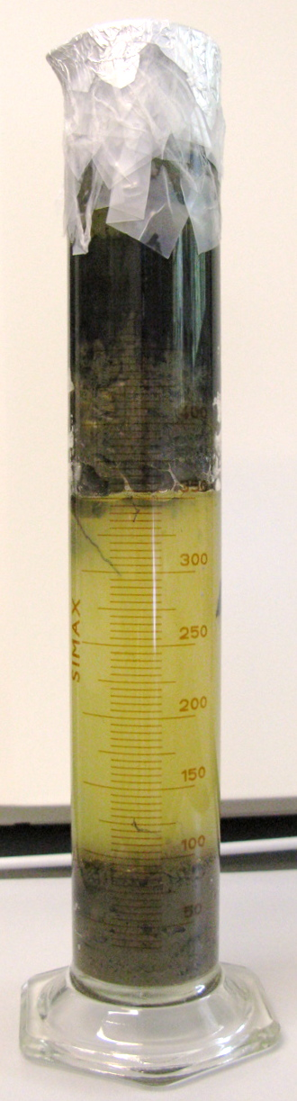 Winogradsky column, 29/05/2008